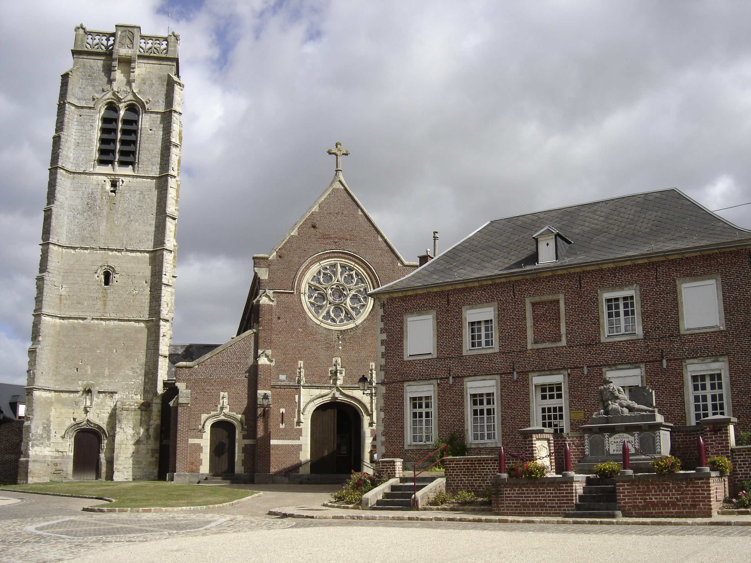 Center of the village of Carnières